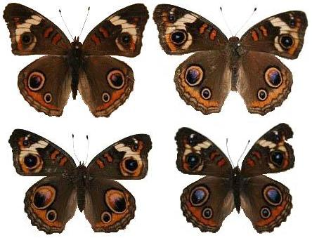 Common Buckeye variation (upper side of the wings), Junonia coenia